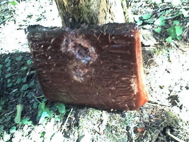 A block of pykrete. The image shows a 50 mm (2 inch) thick 50% mixture (by volume using shredded wood mulch) hit by a single 7.62 x 39 mm rifle round (lower impact mark) fired from 10 m (30 feet) which bounced off the surface. It took an additional 7 rounds (upper penetration mark) of 7.62 x 39 mm fired from 5 m (15 feet) to penetrate the block.